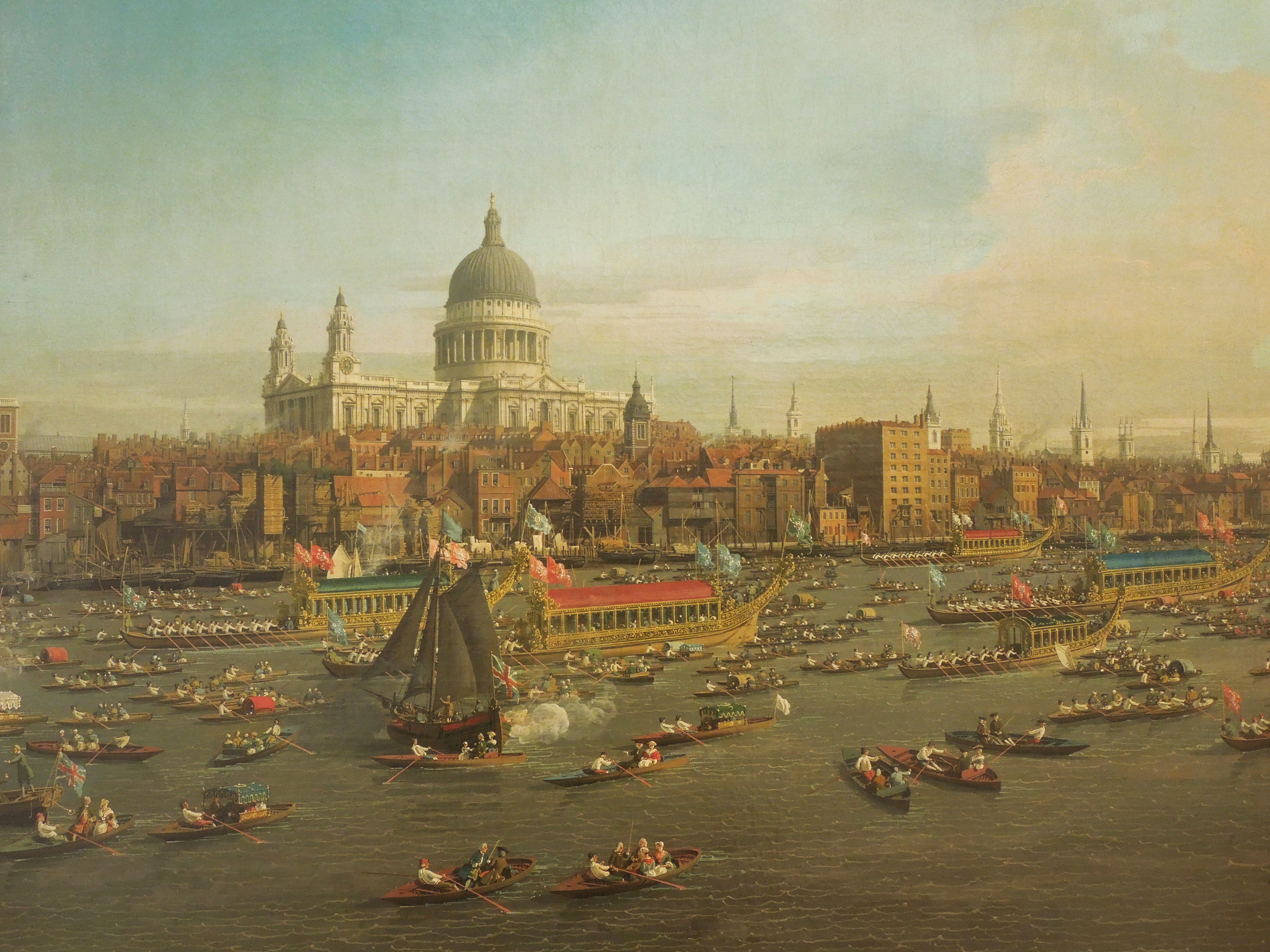 Giovanni Antonio Canal, il Canaletto - The River Thames with St. Paul's Cathedral on Lord Mayor's Day, detail, 1746-47